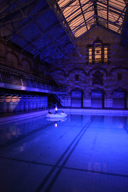 A live artwork for 1 person, inviting them to step off dry land.